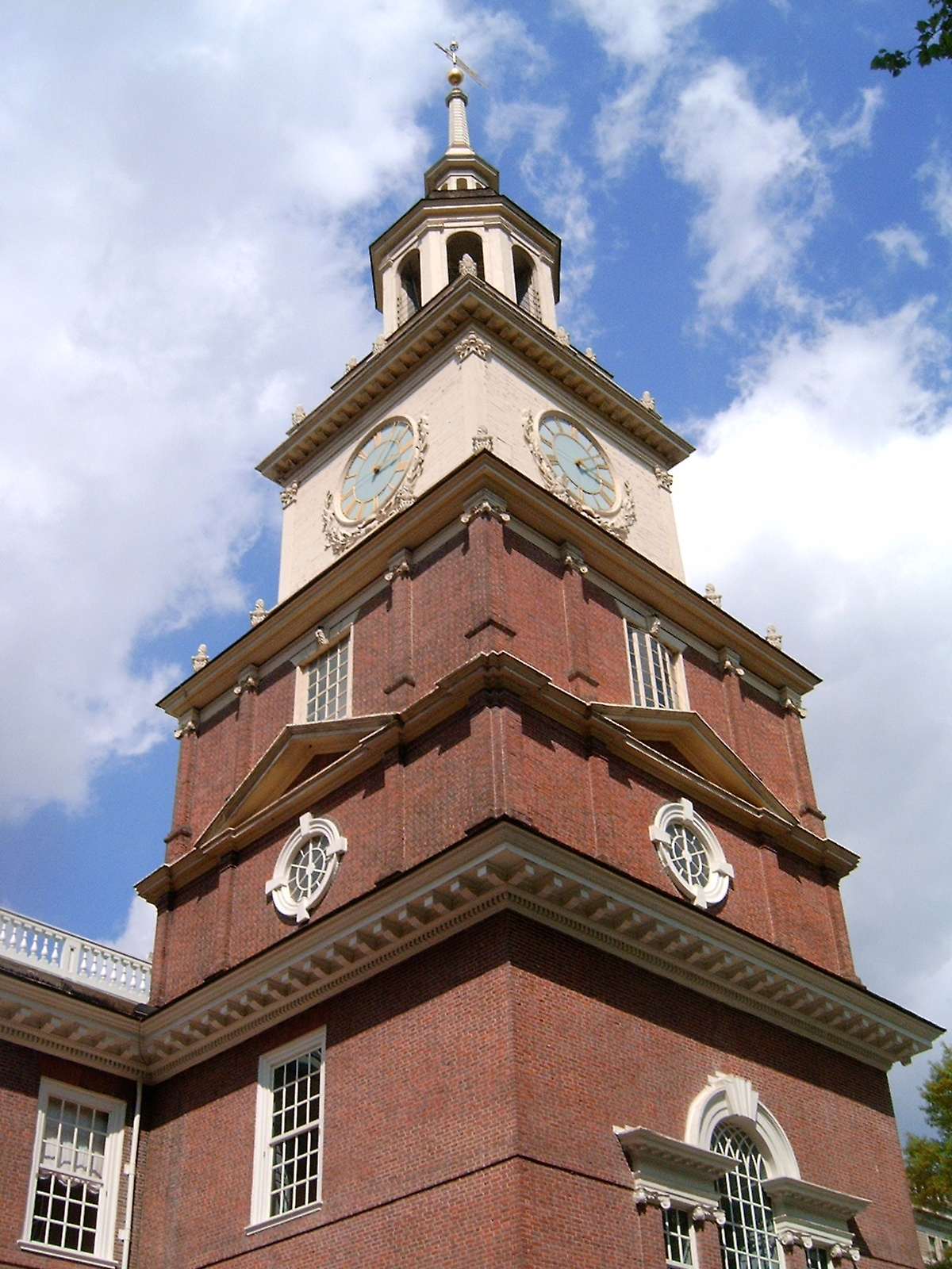 A photograph of the bell tower of Independence Hall in Philadelphia, PA.